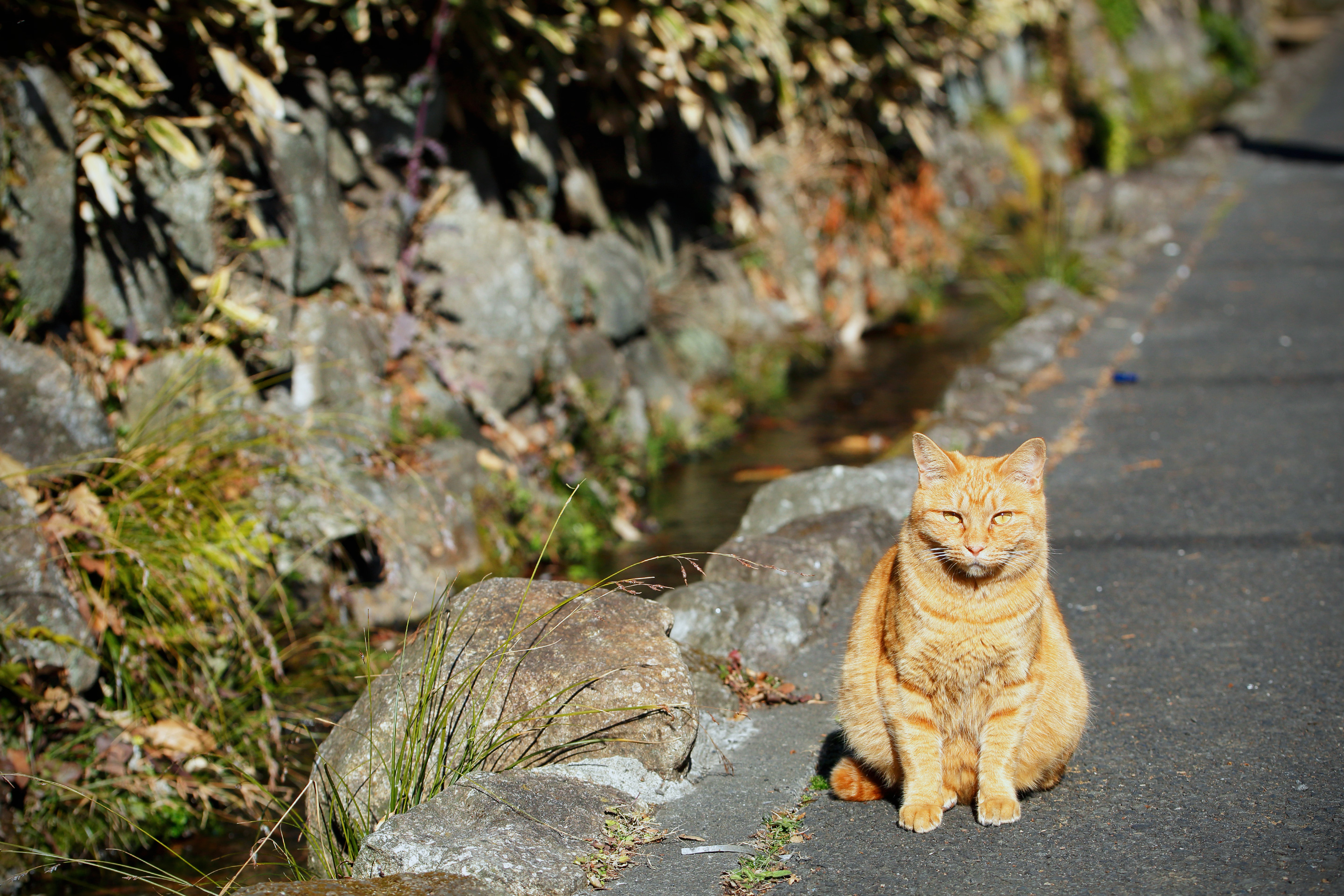 Hino, Tokyo